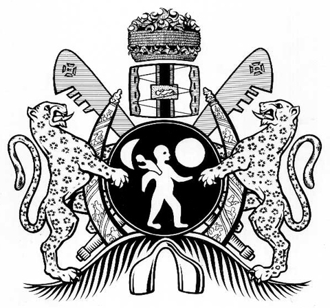 Shield Of Cabinda Free State